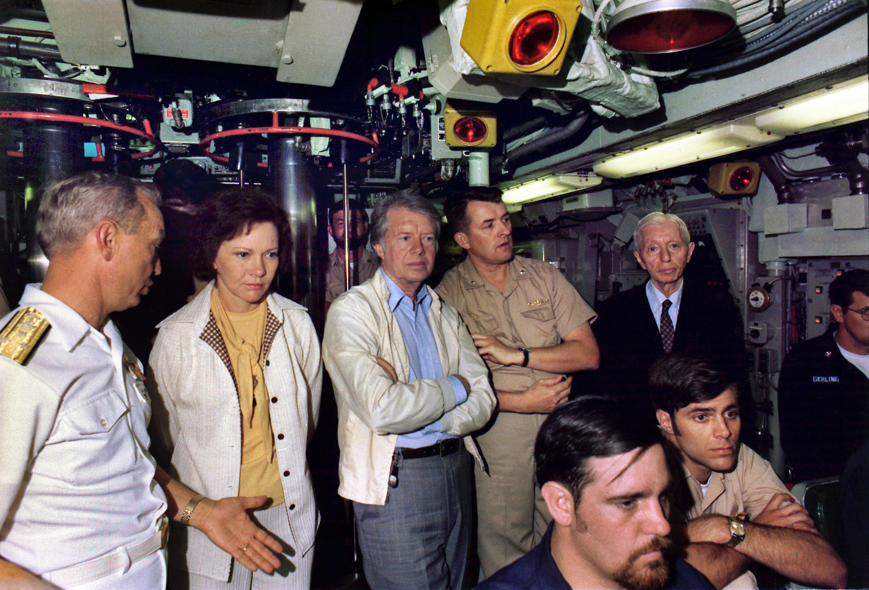 Rosalynn Carter, Jimmy Carter and Admiral Hyman Rickover (far right) aboard the submarine USS Los Angeles shortly after her commissioning. (JPG duplicate of TIF original)